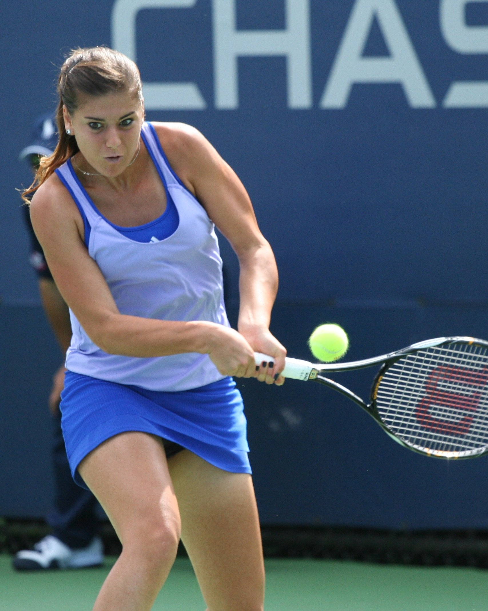 U.S. Open Thursday, Sept. 3, 2009